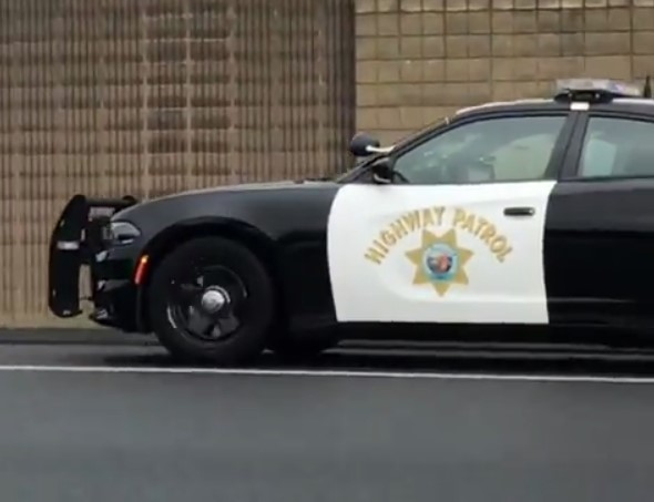 California Highway Patrol Assisting a stranded motorist on I-80 in Roseville.